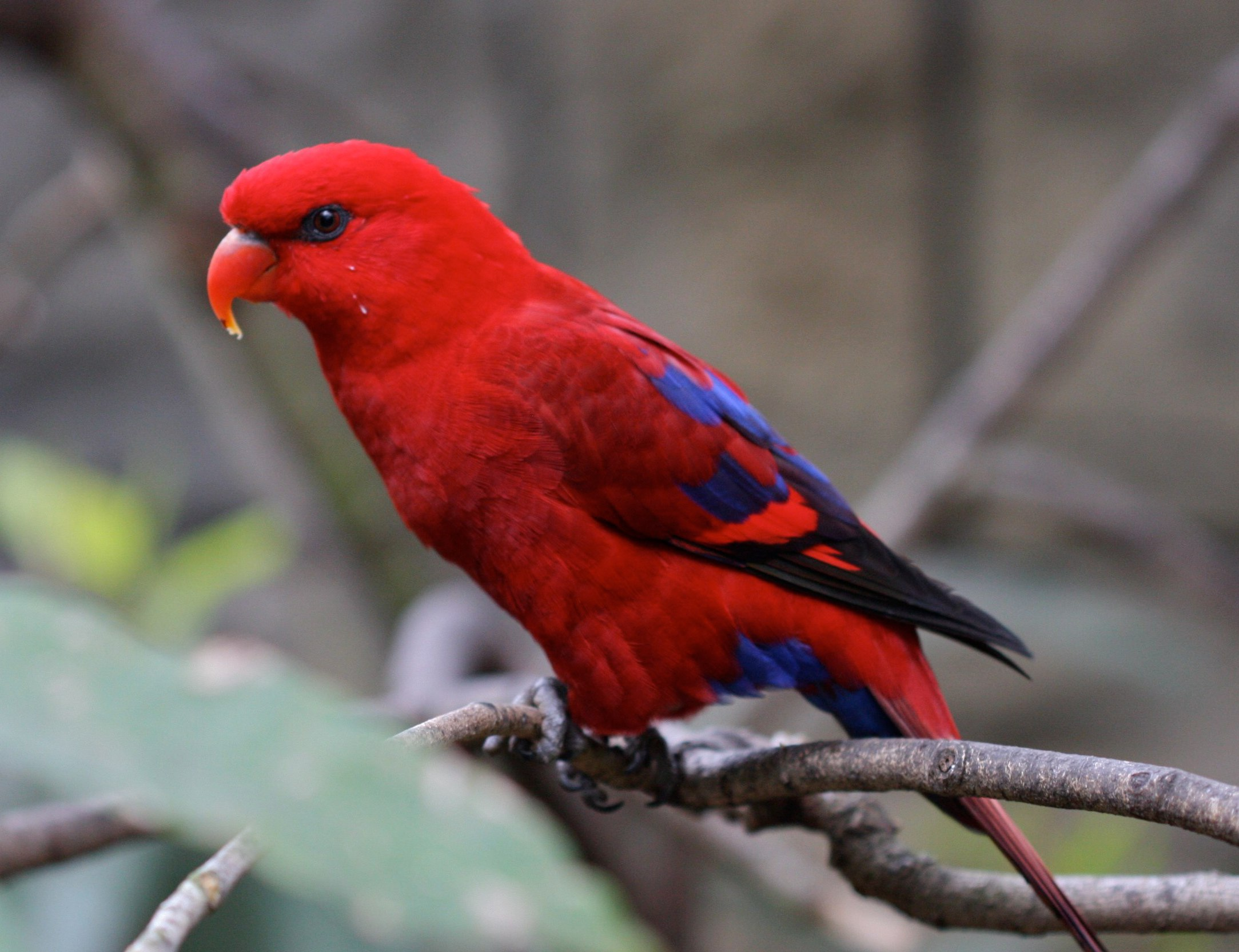 A Red Lory at Taronga Zoo, Sydney, Australia.